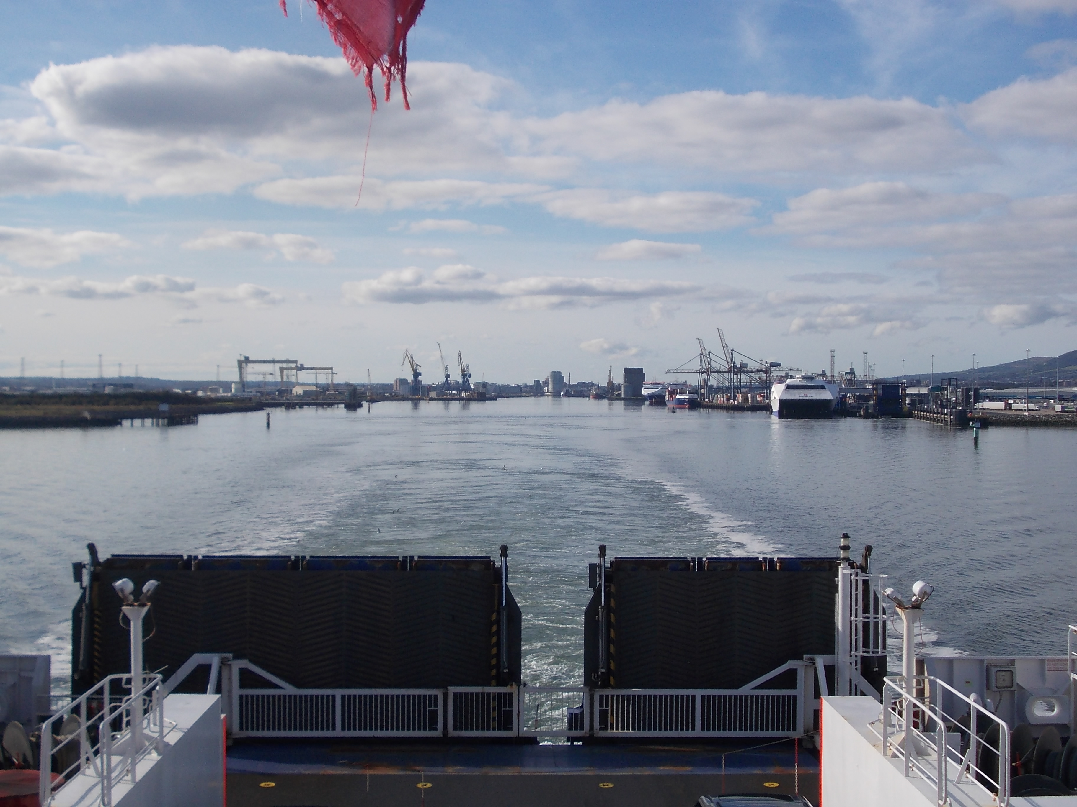 The picture was taken in 2012 on board the back of the MS Stena Superfast VIII traveling back to Cairnryan. It shows Belfast Harbour with the Samson and Goliath (cranes),MS Isle of Inishmore and HSC Jonathan Swift, Obel Tower,MS Stena Lagan and theHSC Stena Voyager.